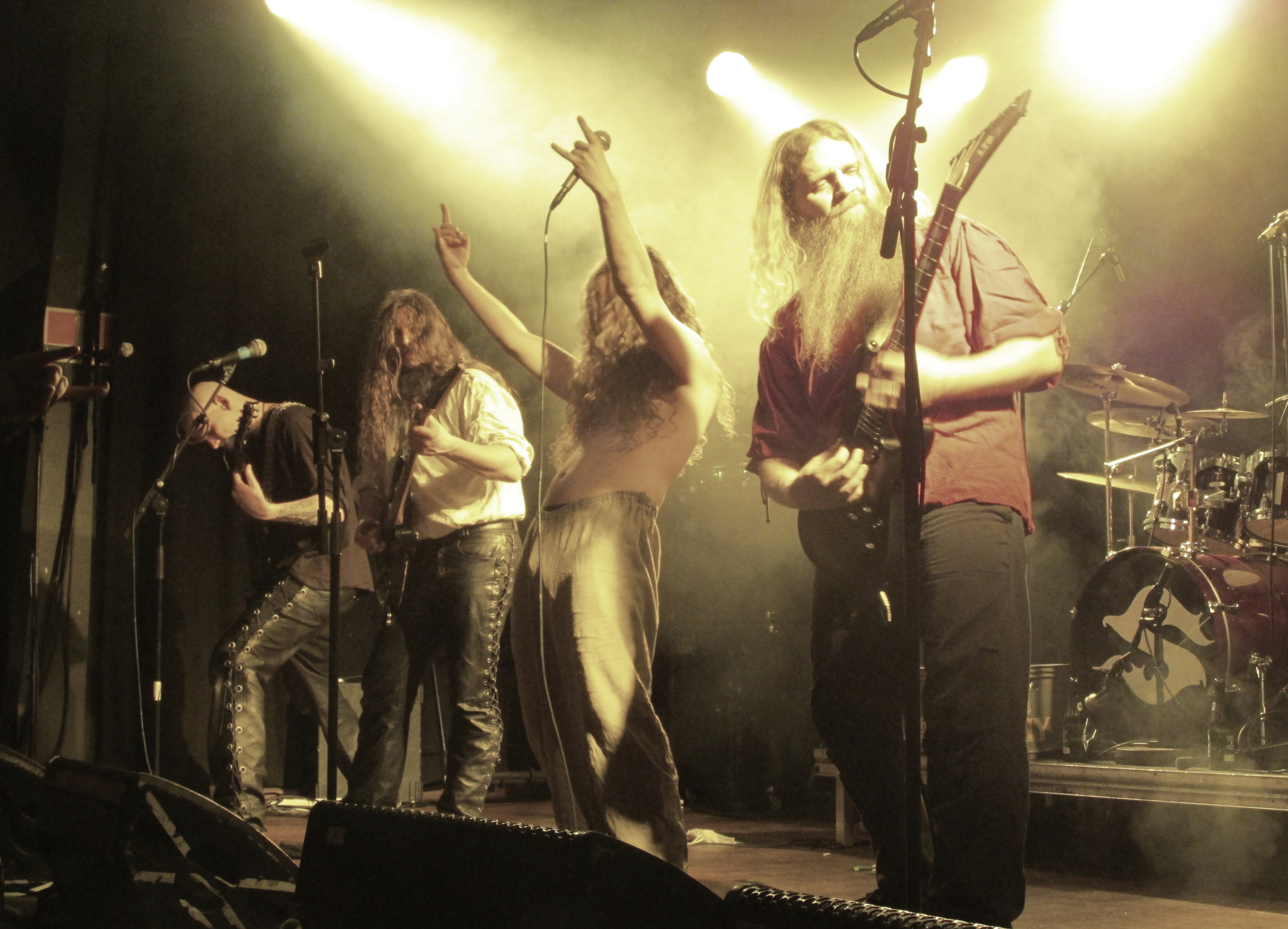 Svartsot concert in Aalborg, Denmark